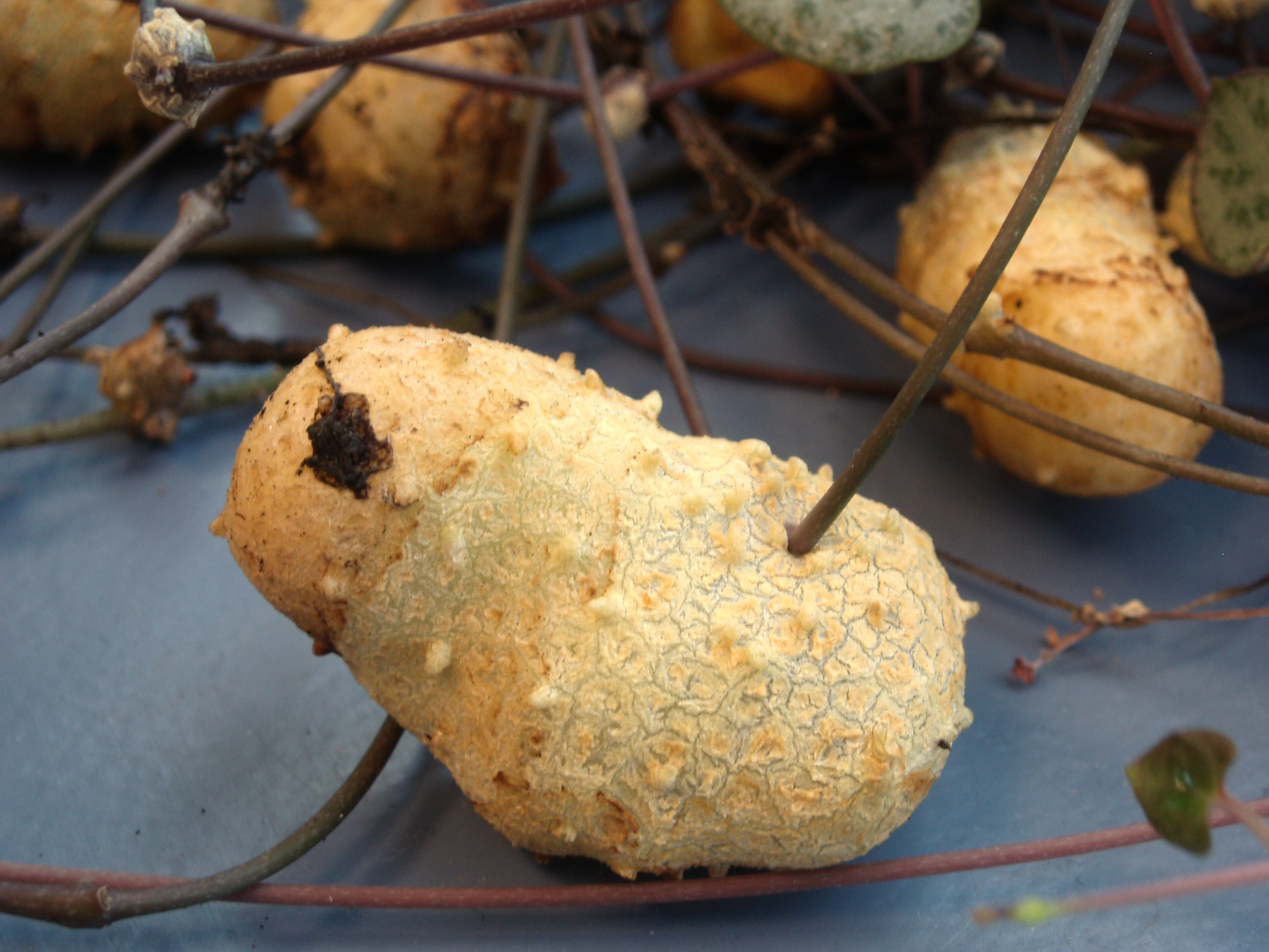 Ceropegia woodii tuber